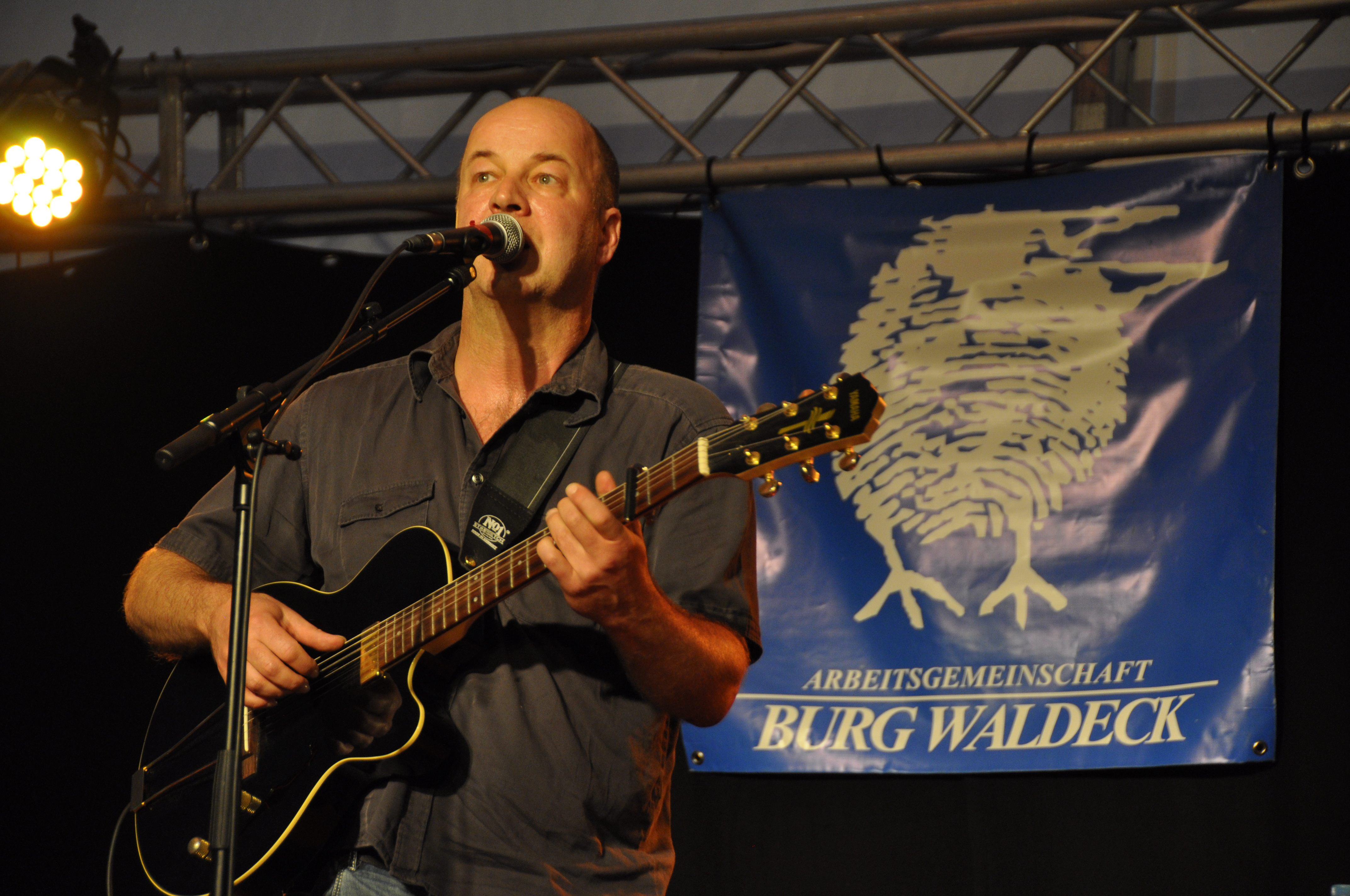 Songfestival 2014 Burg Waldeck, Germany, appearance: Kai Degenhardt